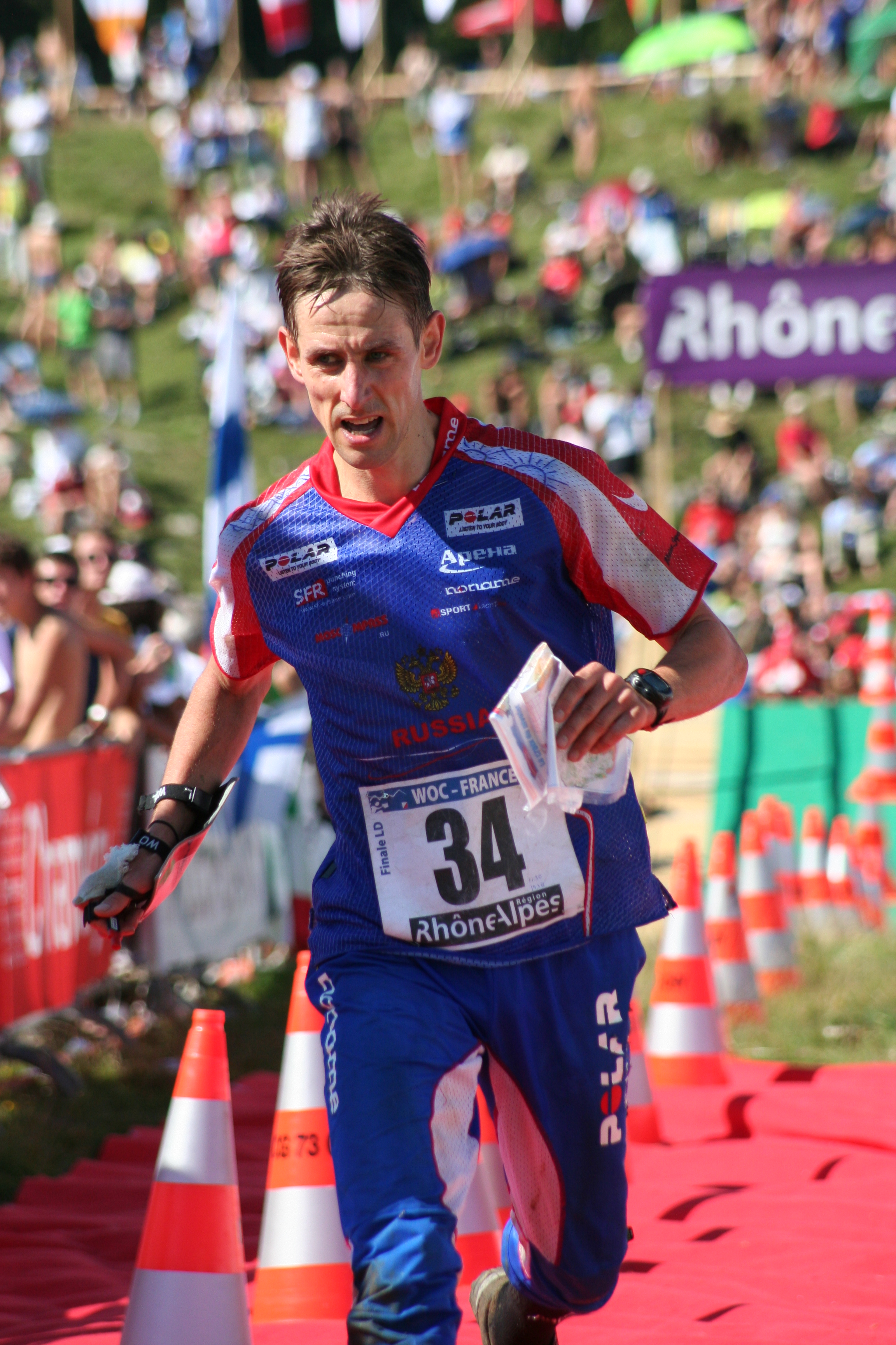 Valentin Novikov at WOC 2011 Long distance final La Féclaz — France Photos by Niels-Peter Foppen —